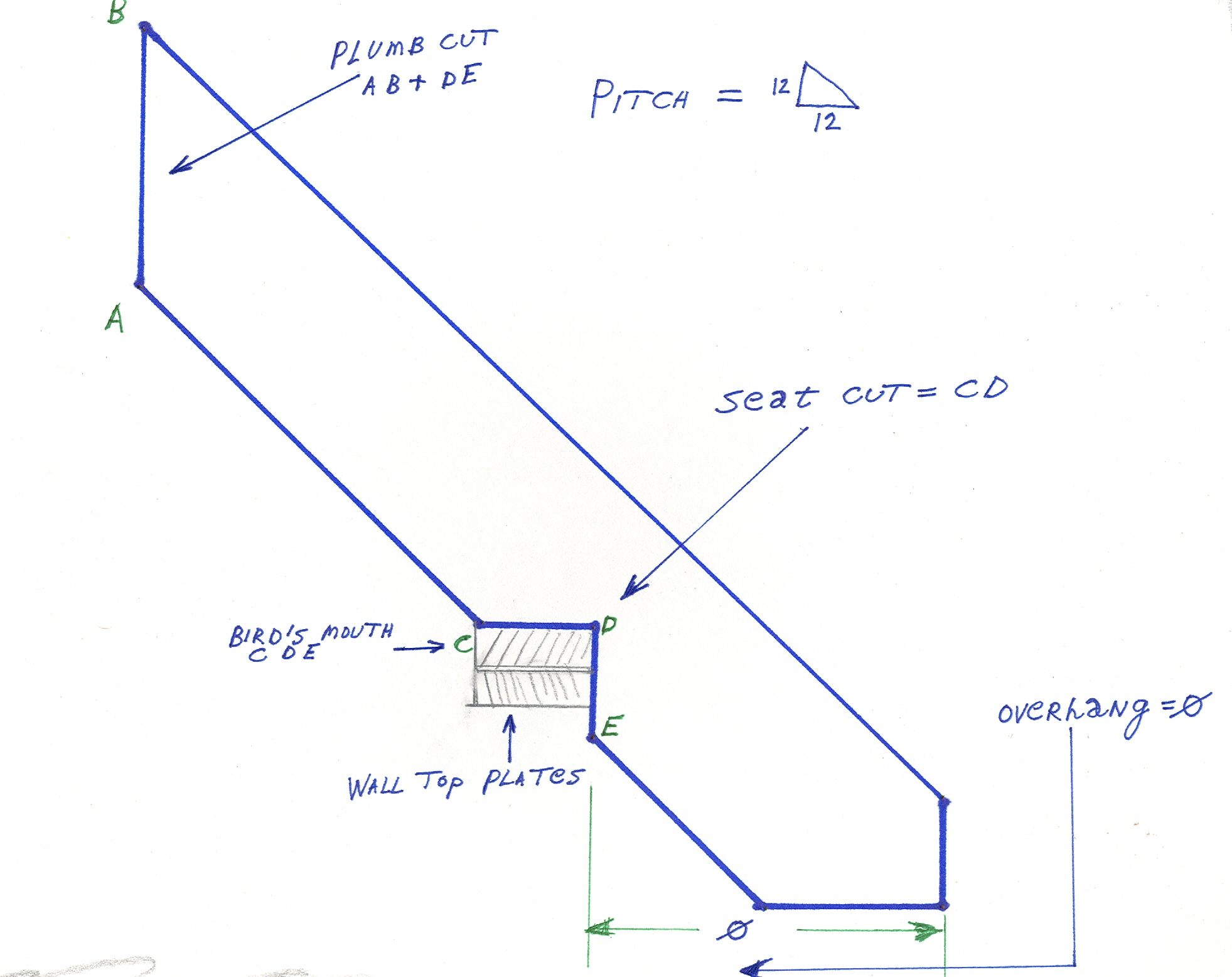 This is a sketch of a common rafter witha 12 pitch